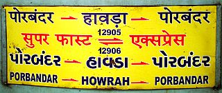 Howrah Porbandar Superfast Express